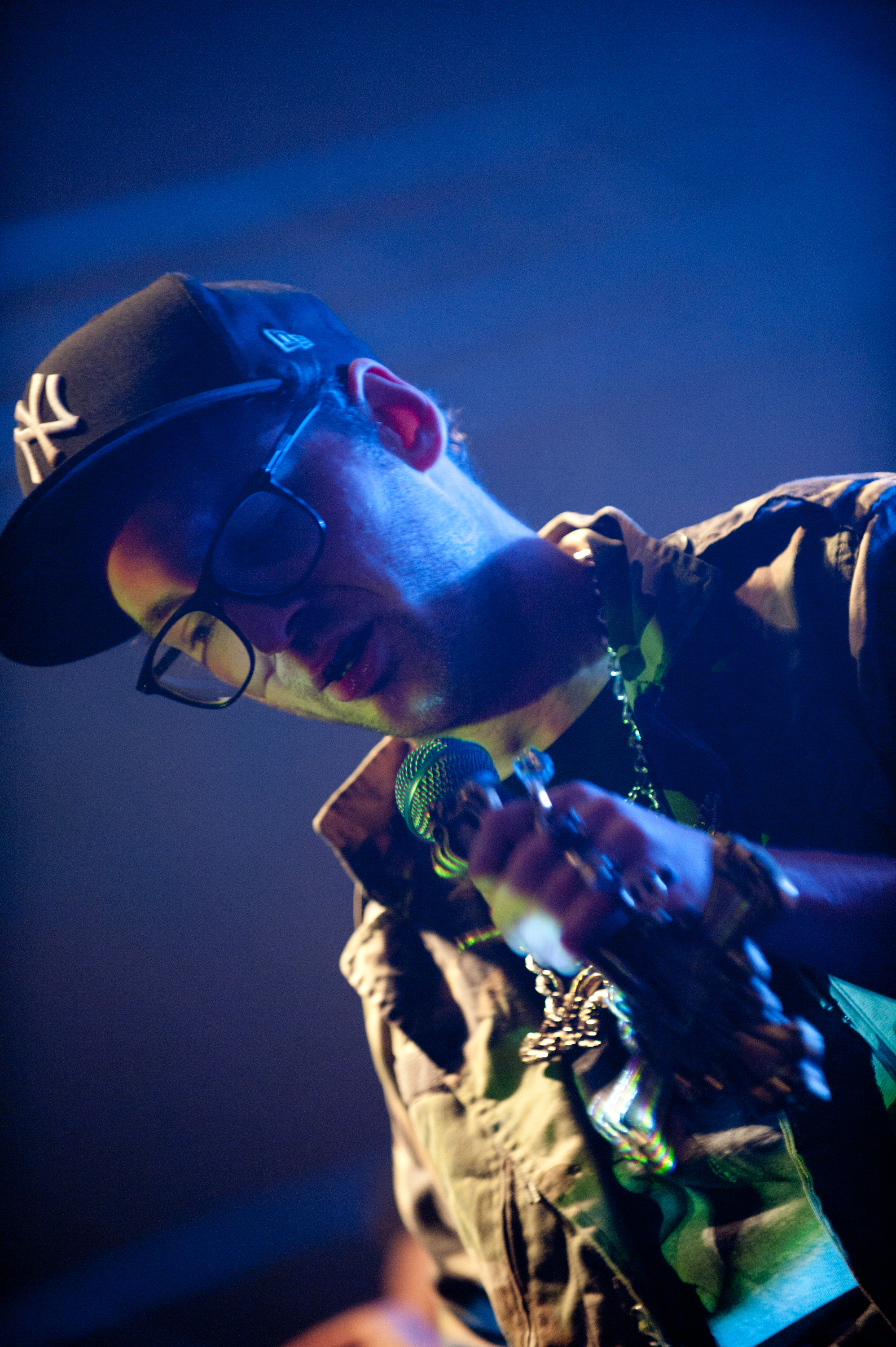 Frej Larsson - Maskinen, taken at Hultsfredsfestivalen 2011